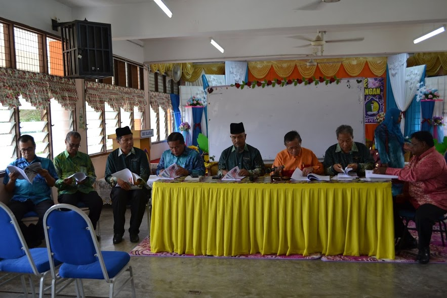 GAMBAR 20